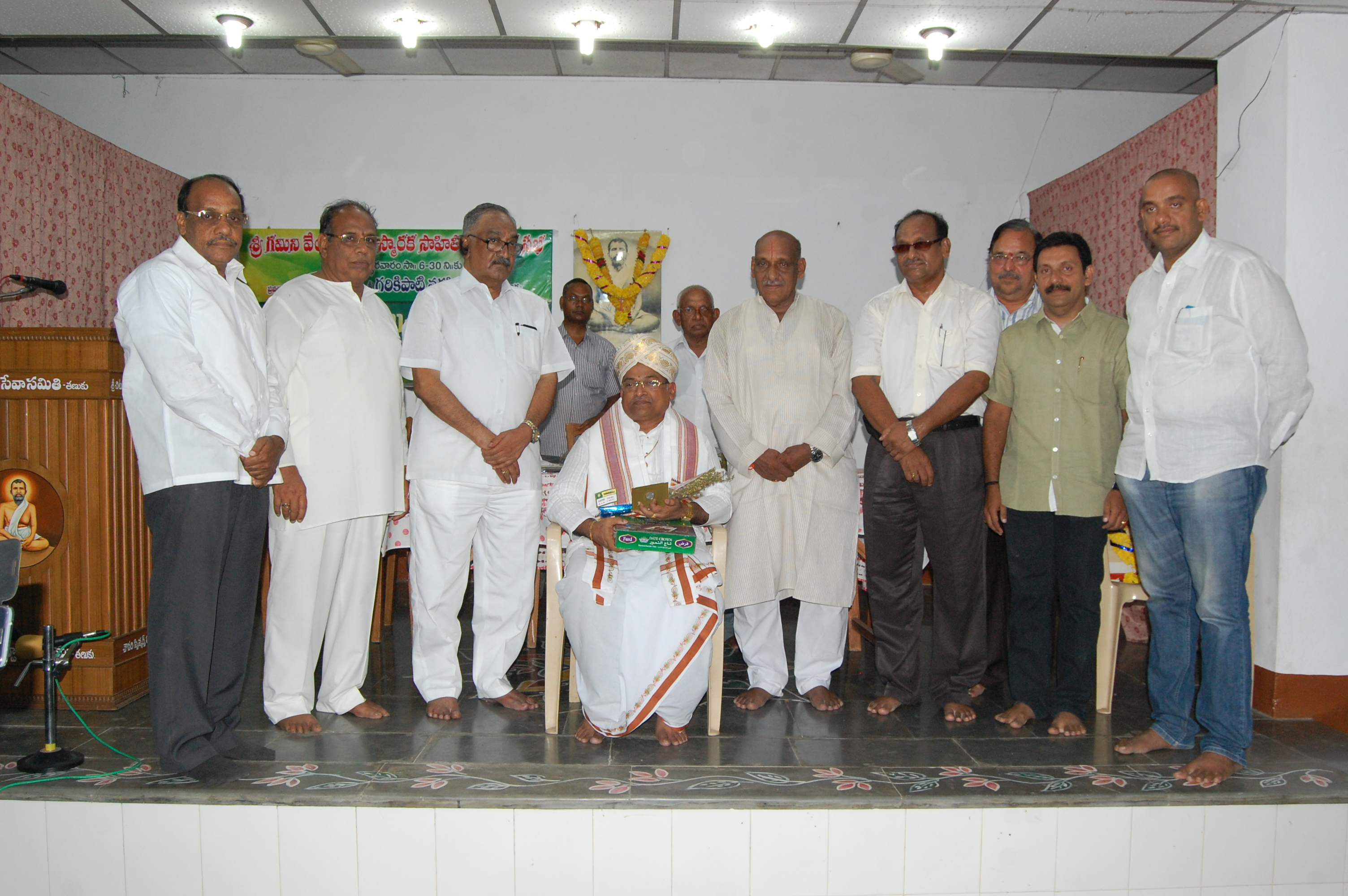 శ్రీ గరికిపాటి నరసింహారావు గారికి గమిని వేంకటేశ్వర్లు స్మారక సాహితీ పురస్కారం తో సత్కారం